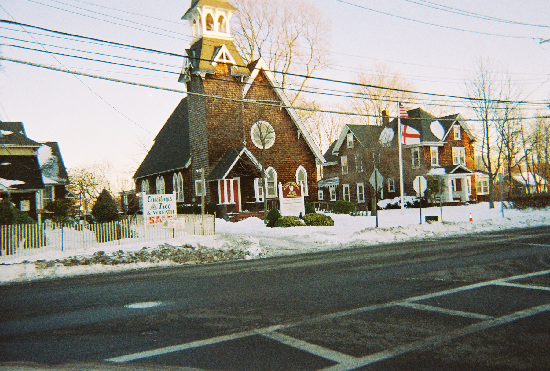 A southeastern view of the historic St. Paul's Episcopal Church Complex in Patchogue, New York. The complex consists of the church in the center, one house on the right, and another on the left. Though the National Register of Historic Places lists the church as being at 31 Rider Avenue, 31 Rider Avenue is actually the address for that house on the right. This picture was taken from the northwest corner of Rider Avenue and Terry Street.